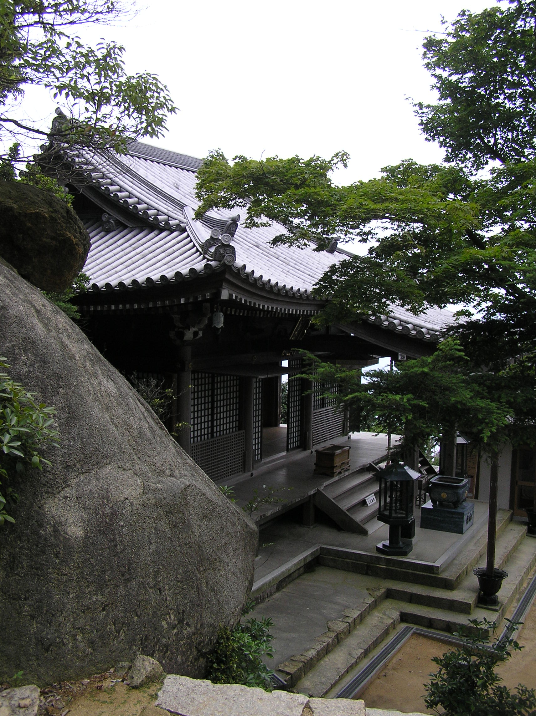 Sanki-gongen-dō temple near the summit of Mt. Misen in Itsukushima (Miyajima), Japan. It is a subsidiary of Daishō-in temple of the same island.